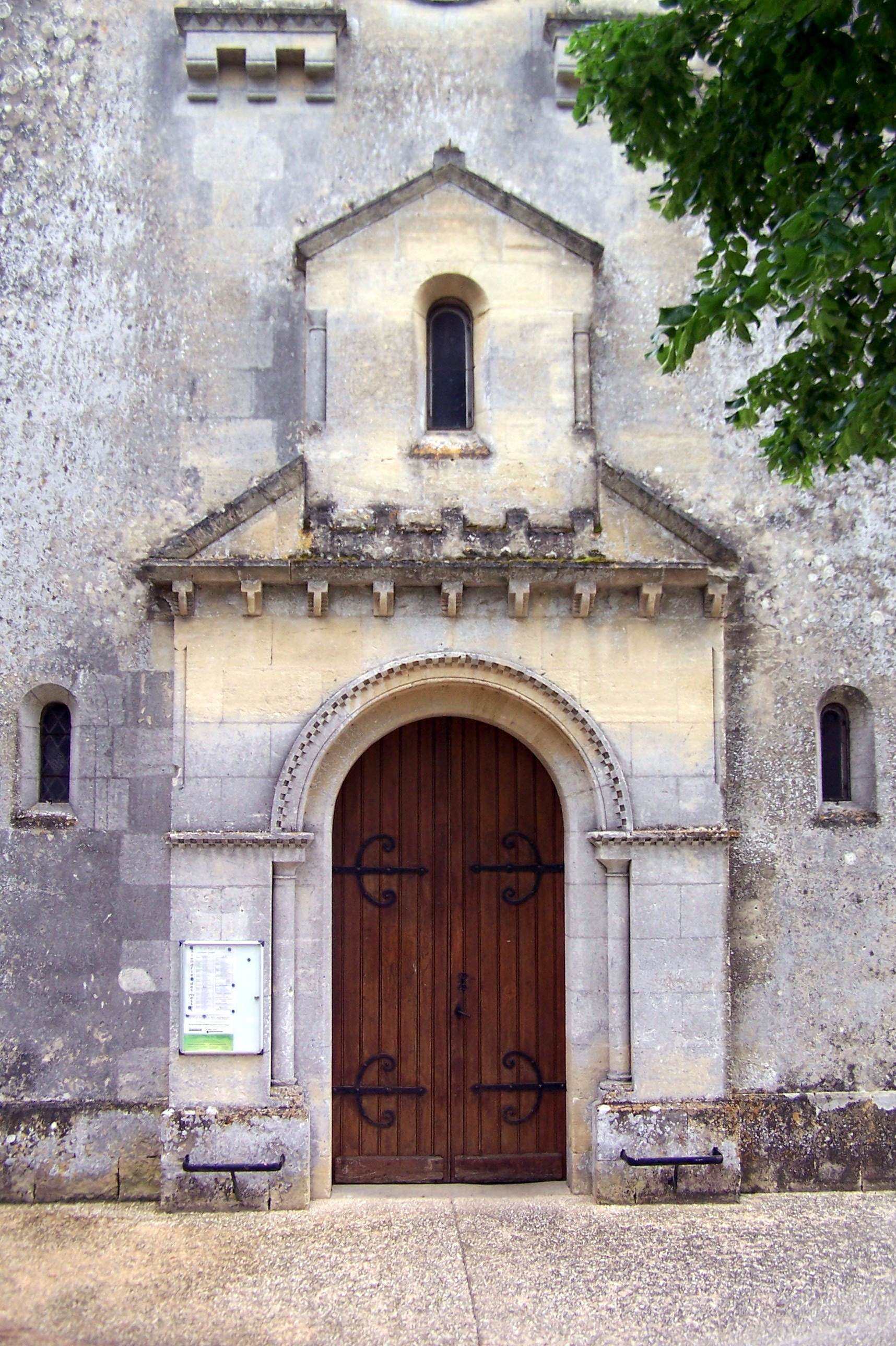 Church Saint-Louis of Roaillan (Gironde, France)